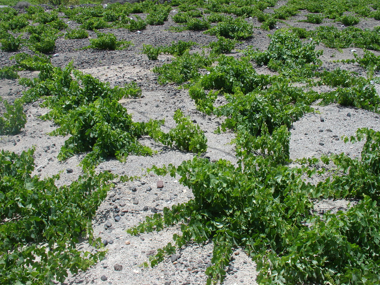 Grape plants growing directly on the ground (without any support for the branches), Santorini, Greece.